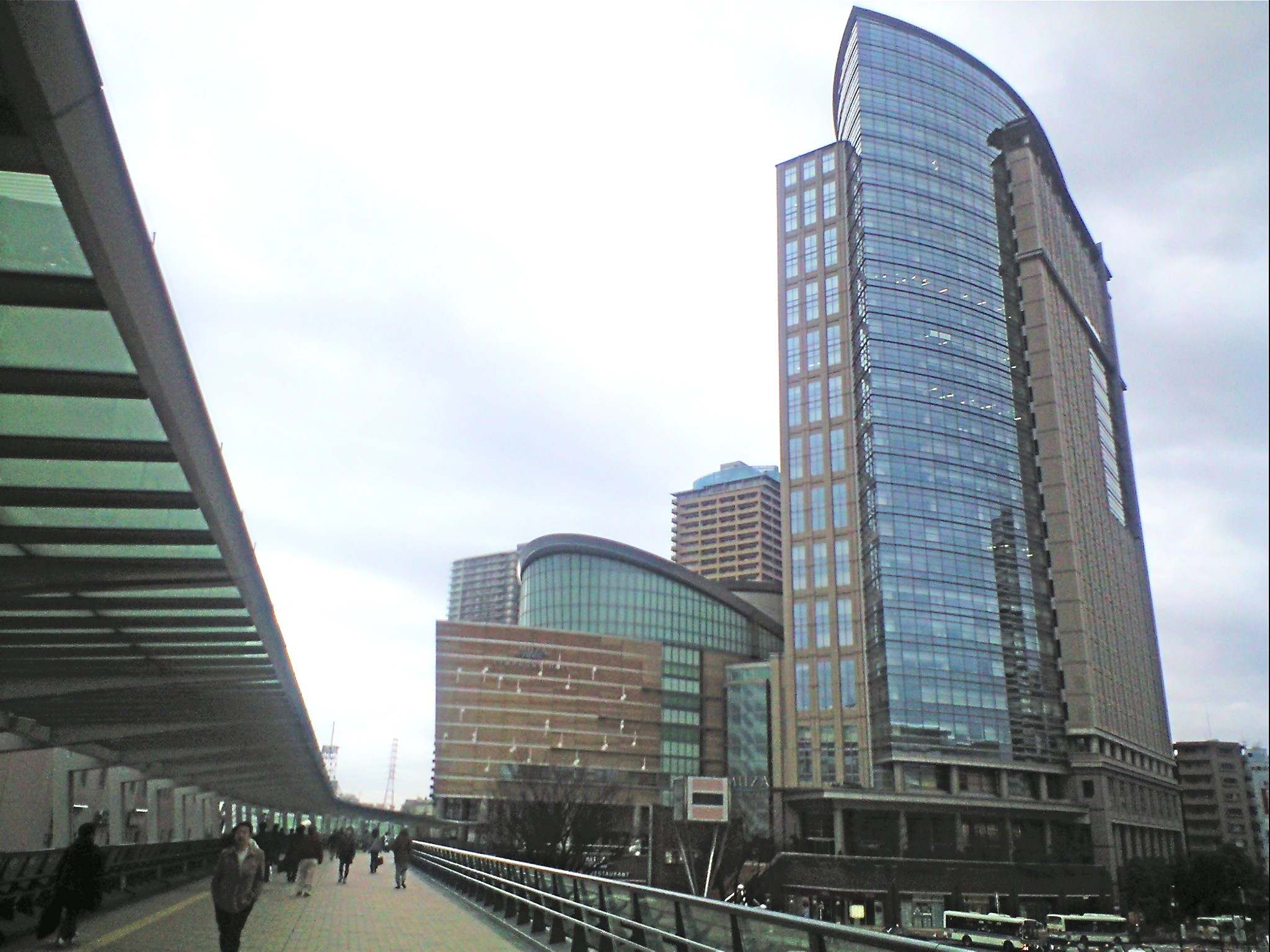 Muza Kawasaki in Kawasaki City, Japan